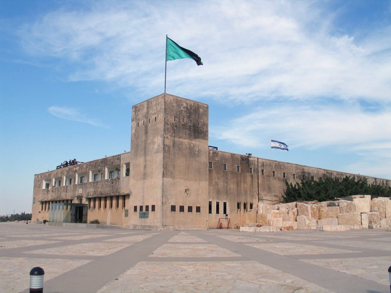 Description: Former police building in Latrun, Israel. Now part of the Armored Corps Museum (Yad la-Shiryon). 2005. Source: Photo by me, User:Bukvoed.